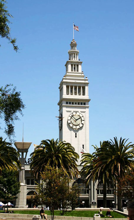 Kelvin Kay user:Kkmd